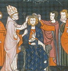 Coronation of Carloman II of France (British Library, Royal 16 G VI f. 242)